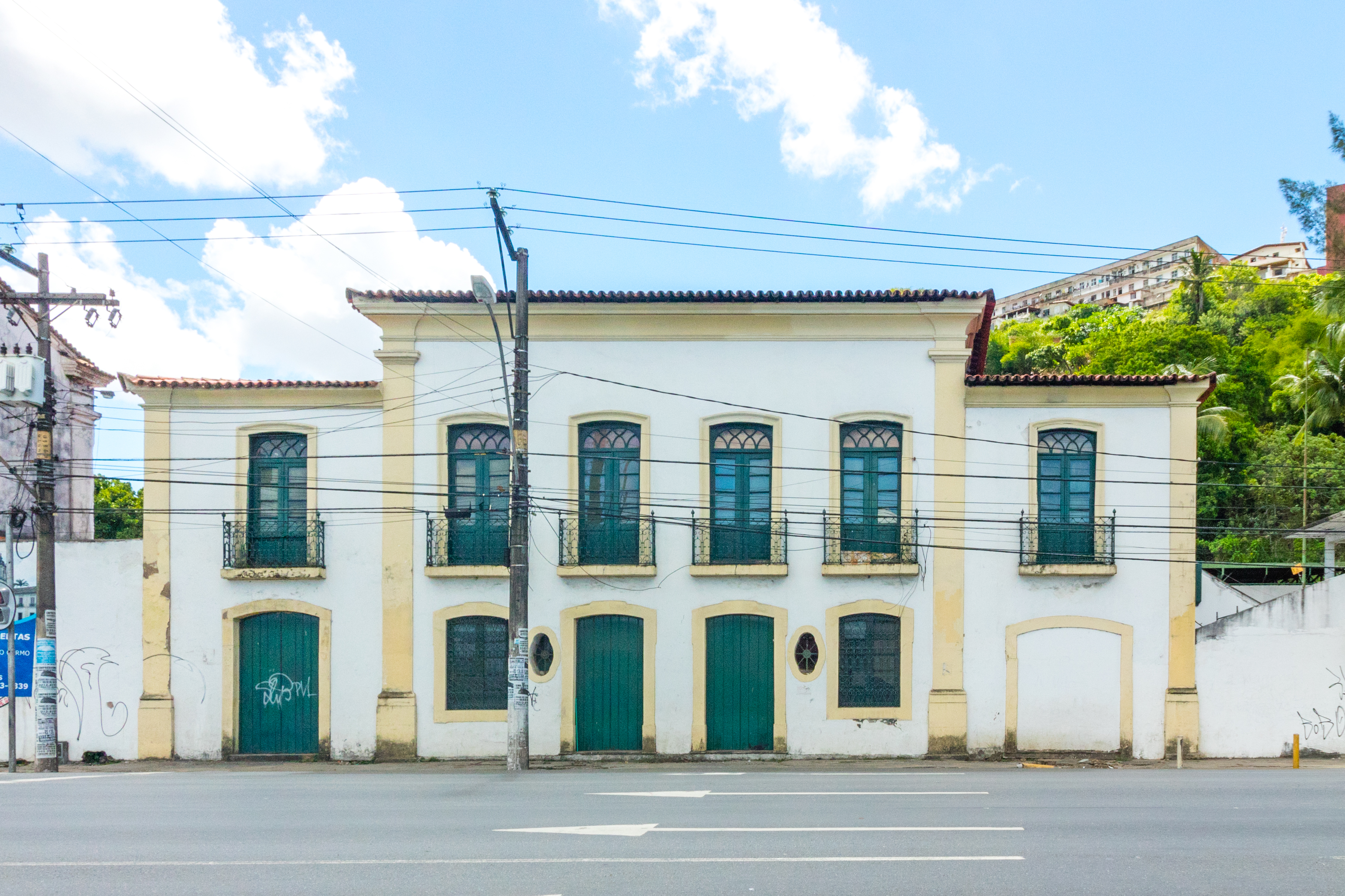 Casa Nobre de Jequitaia, also known as Casa à Avenida Frederico Pontes, Calçada, Salvador, Bahia, Brazil. National Heritage Monument no. 0165-T-38.